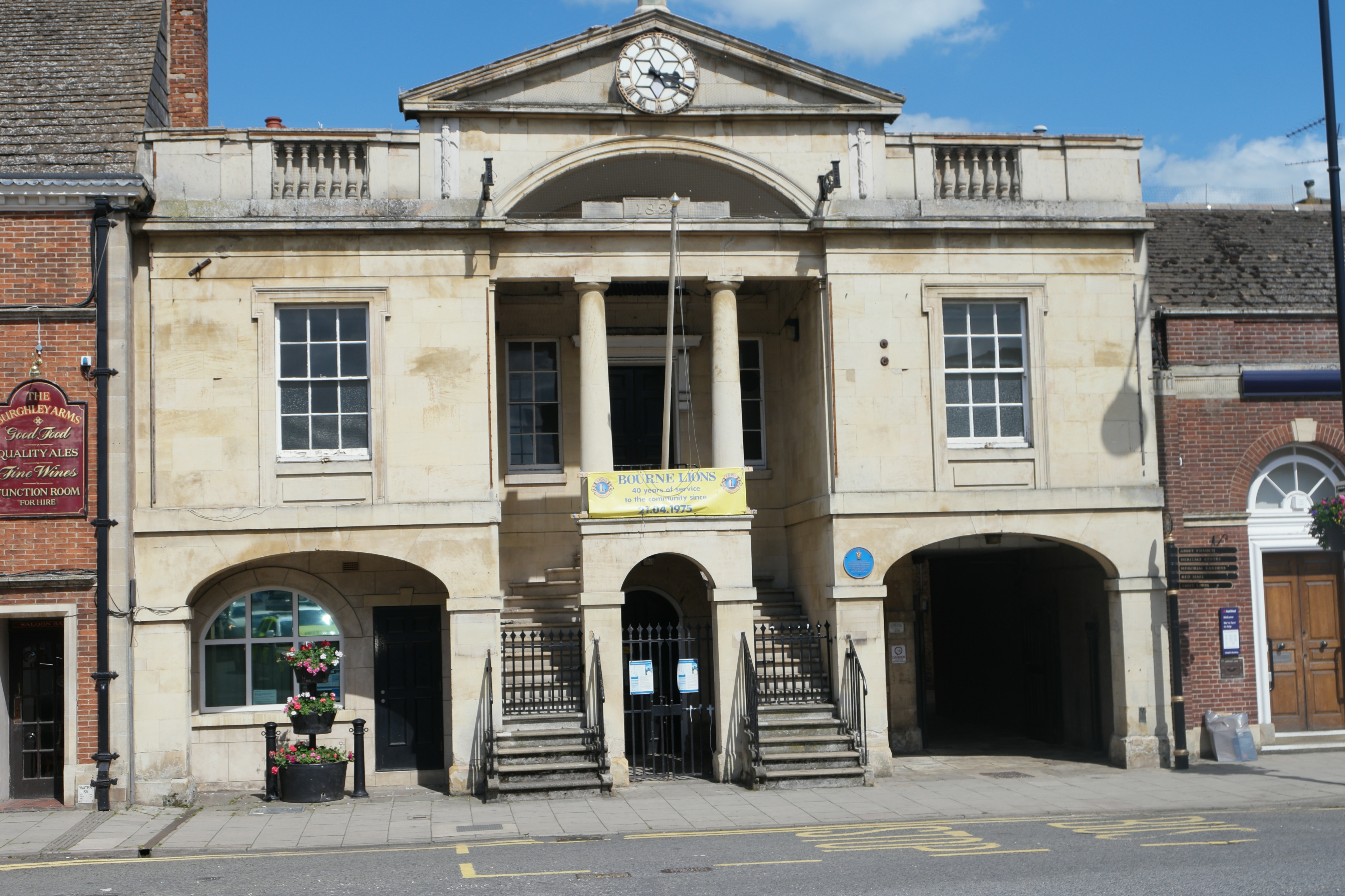 Still unused